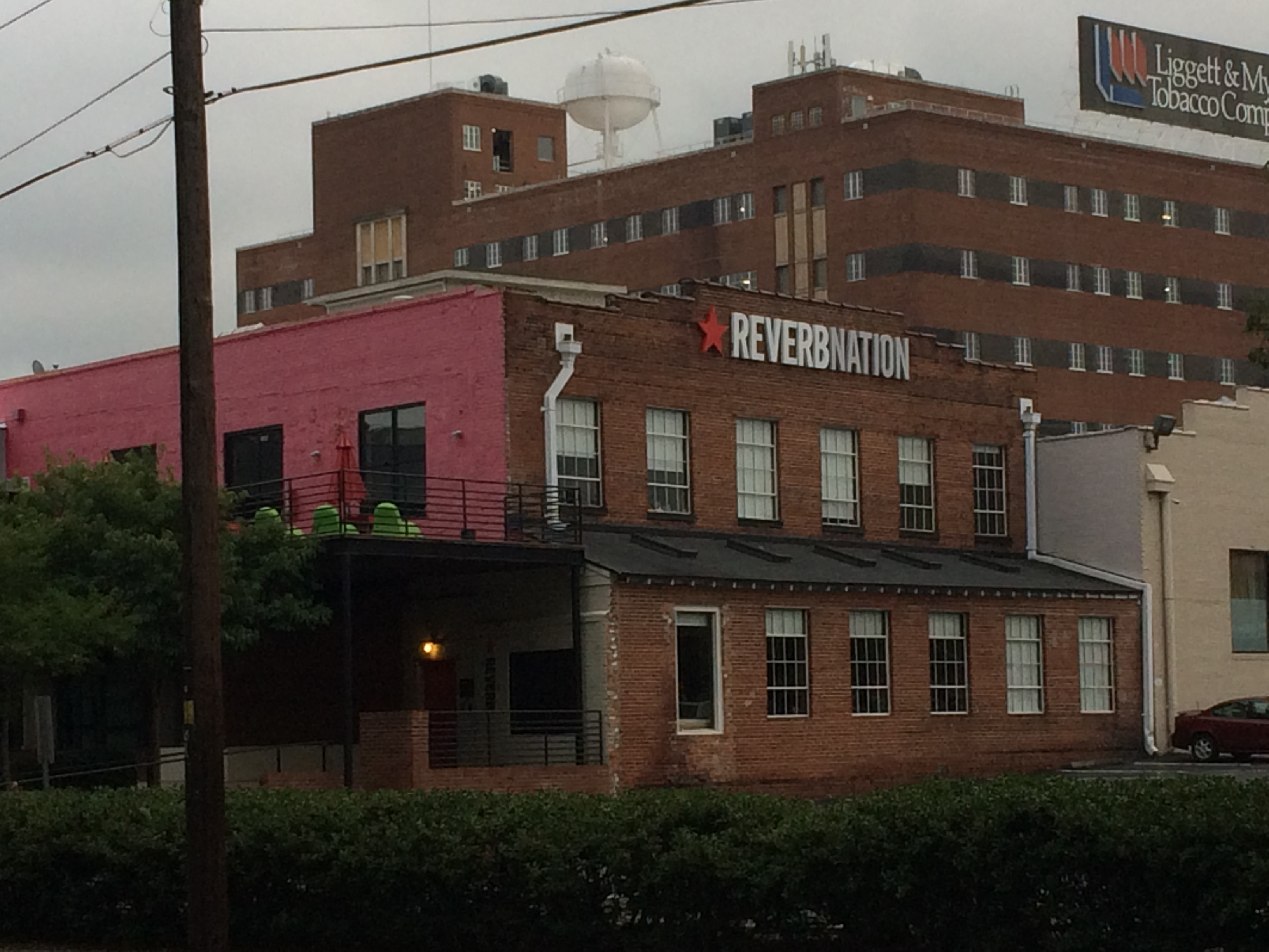 ReverbNation Headquarters in Durham, North Carolina